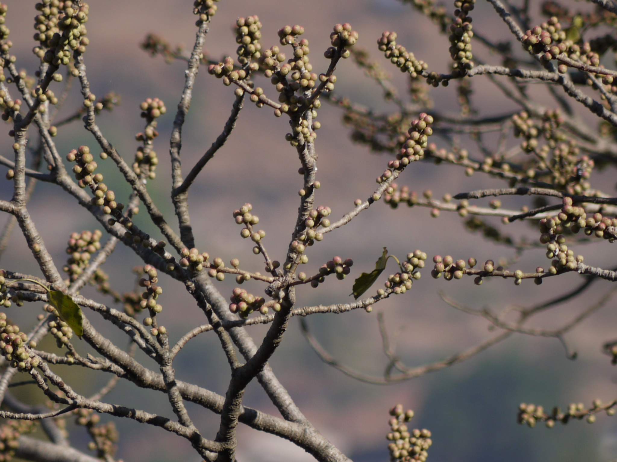 Moraceae (mulberry family) » Ficus arnottiana FY-kus or FIK-us from the Latin for Fig ar-not-ee-AH-nuh -- named for George Arnold Walker-Arnott, Scottish botanist commonly known as: Indian rock fig, rock pipal, waved-leaved fig tree, wild pipal • Gujarati: ખડક પાયર khadak payar • Hindi: bassari, palhi, पारस पिपल paras pipal, pilkhan, पिंपली pimpli • Kannada: ಕಲ್ಲ ಅಶ್ವತ್ಥ kalla ashvattha • Malayalam: കല്ലരയാല്‍ kallarayal • Marathi: पायर payar, कडक पाईर kadak payer, पिपळी pipli • Sanskrit: परीस parisah, प्लावक plavaka, प्लवंग plavanga • Tamil: கொடியரசு kotiyarasu • Telugu: కల్లరావి kallaravi, కొండ రావి konda ravi Native to: India, Sri Lanka References: Flowers of India • Sri Mahabodhiya • Ethnobotanical leaflets • M.M.P.N.D. • ENVIS - FRLHT